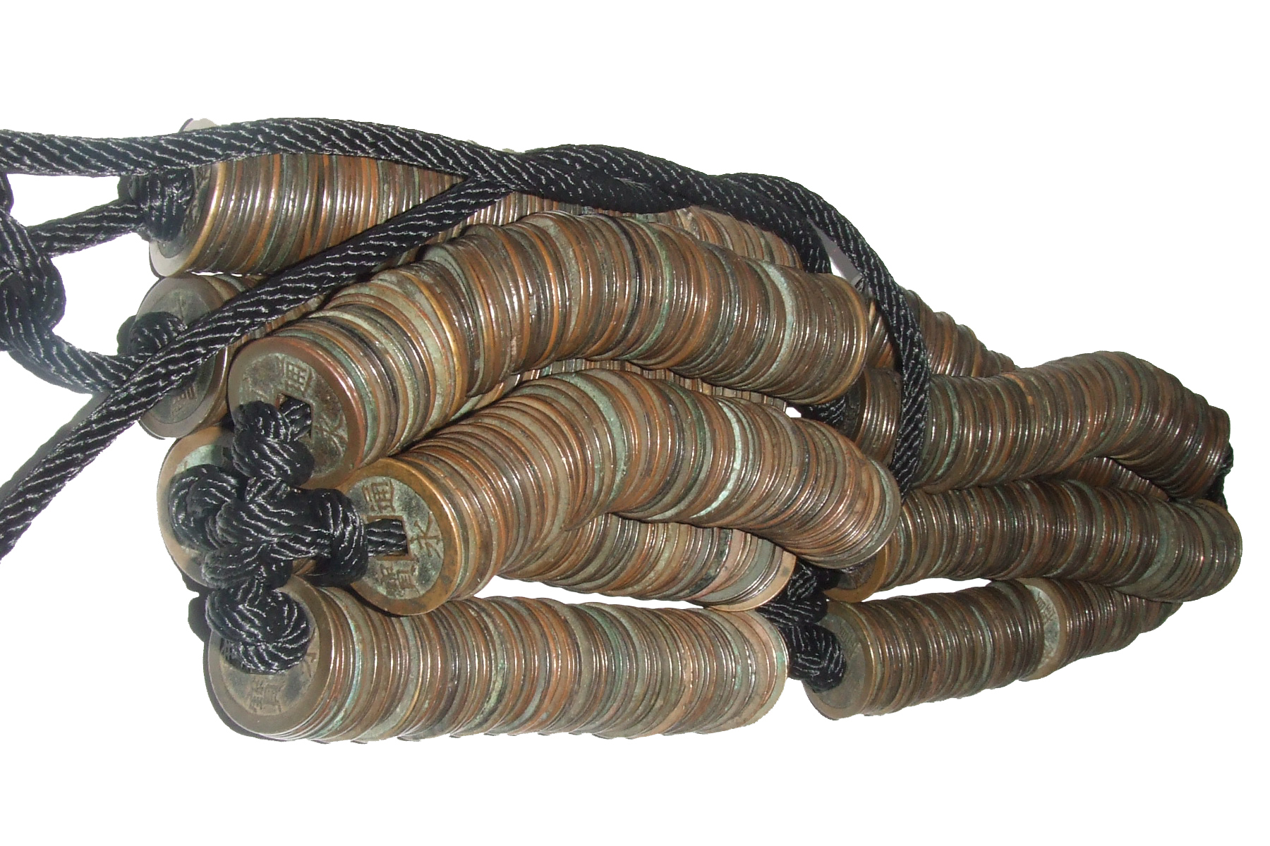 Kaneitsuho-1kanmon